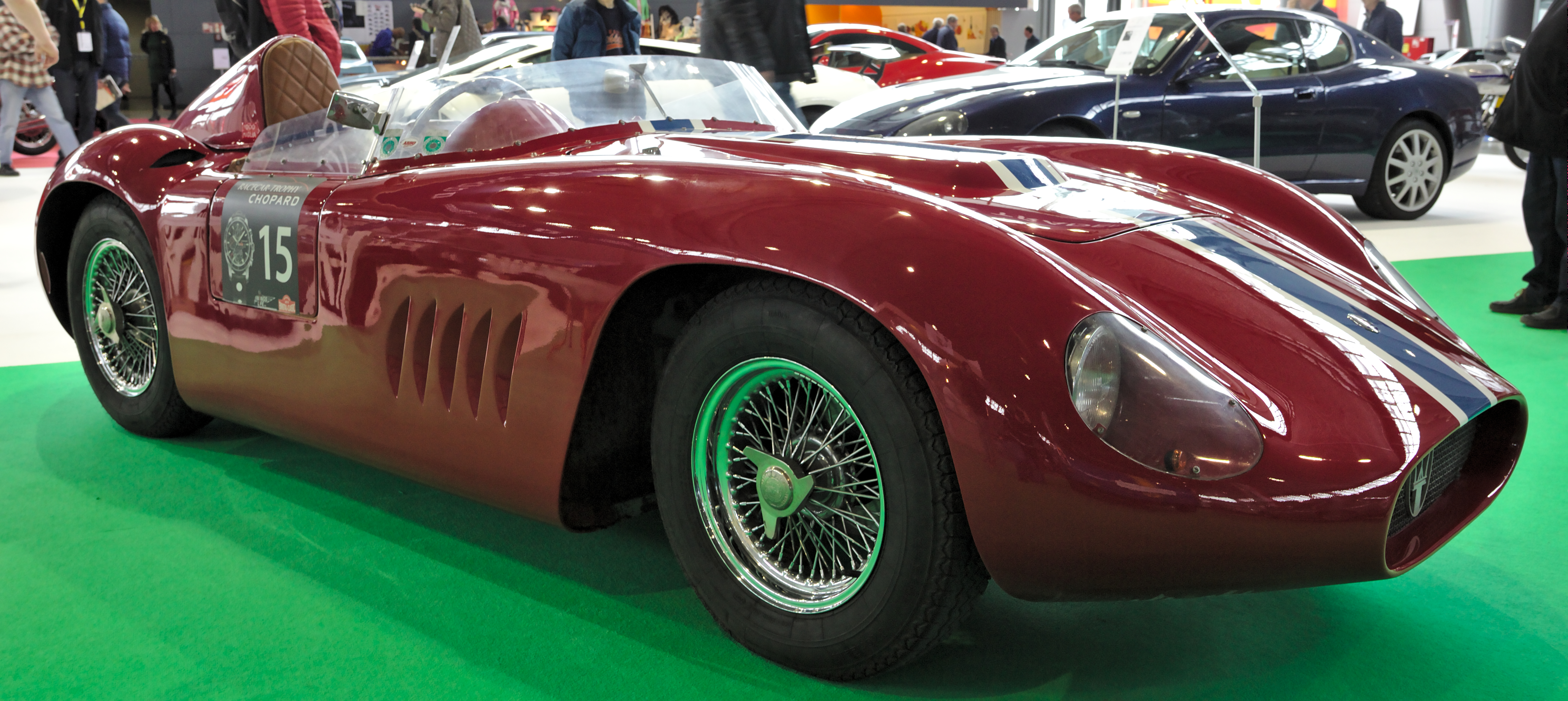 Maserati 350 S at Retro Classics 2018